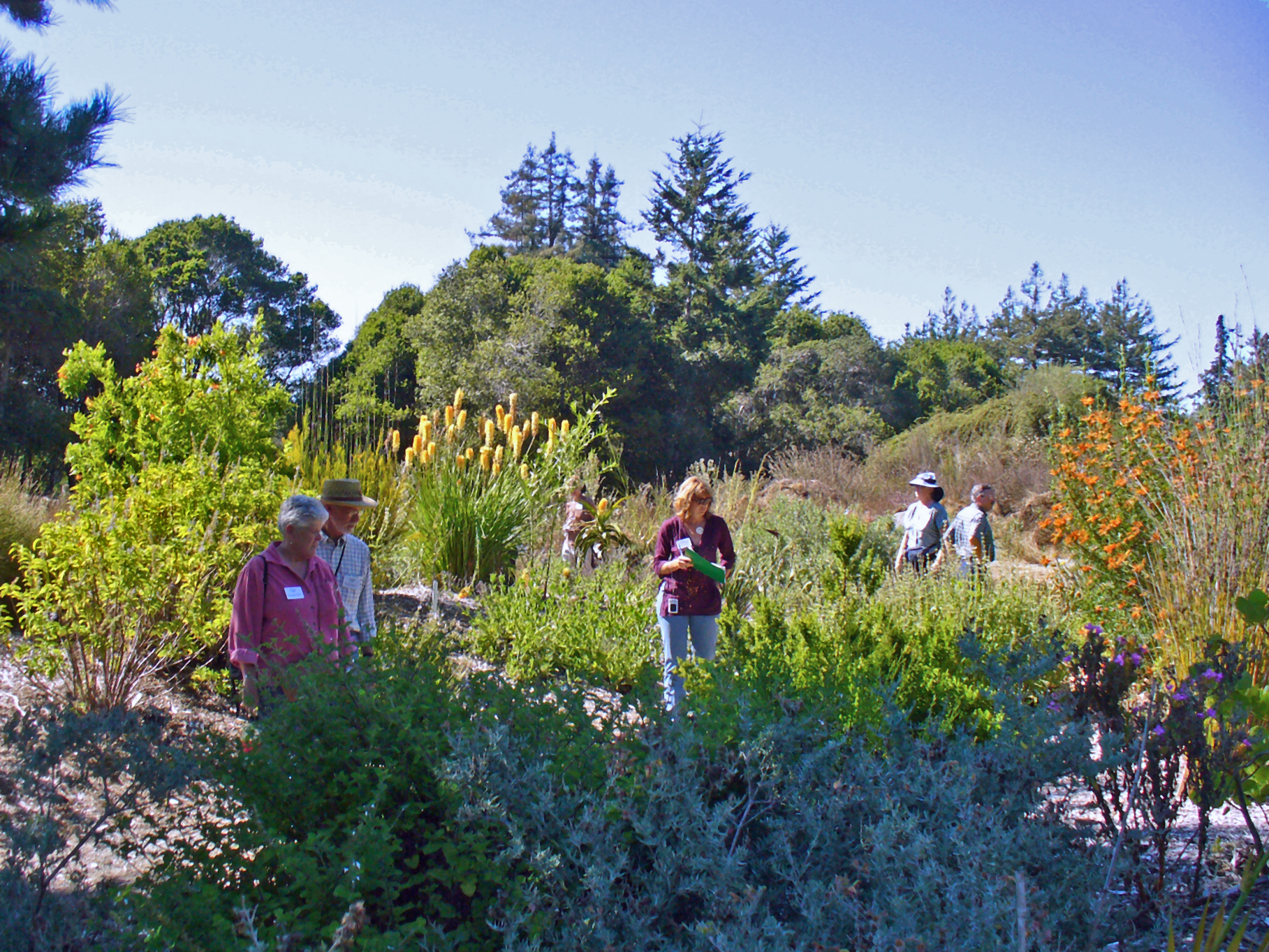 Salvia Summit, Cabrillo College, Aptos, CA, USA. 1, 2 August 2008.